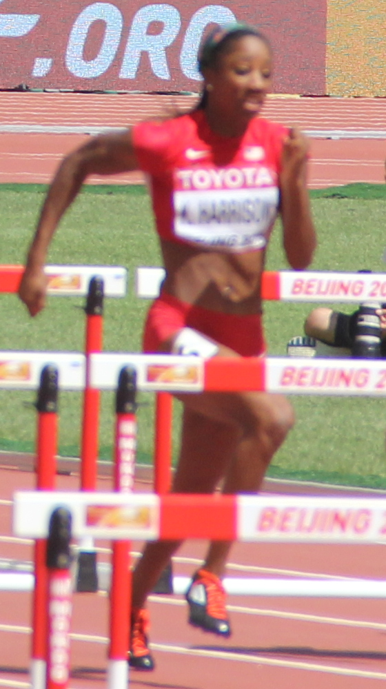 Kendra Harrison at the 2015 World Championships in Athletics